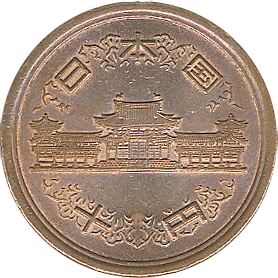 10 Yen coin of Japan. Inscription: 日本国 (Nippon-koku) 十円 (Ten yen). Design: Byodoin, a Buddhist temple in Uji, Kyoto Prefecture, Japan. I scanned this coin.